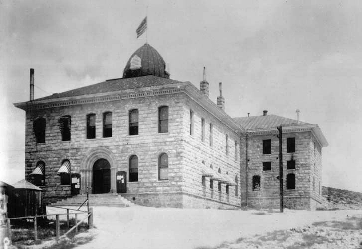 The Nye County Courthouse at the time of its expansion in 1907. Tonopah, Nevada.